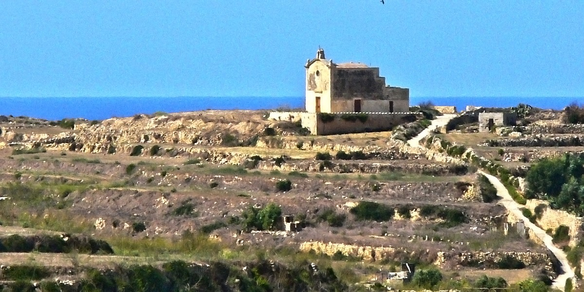 San Dimitri chapel on the western coast of Gozo